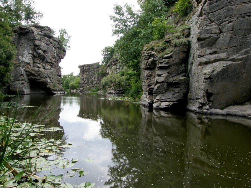 Buki, Ukraine, 2009